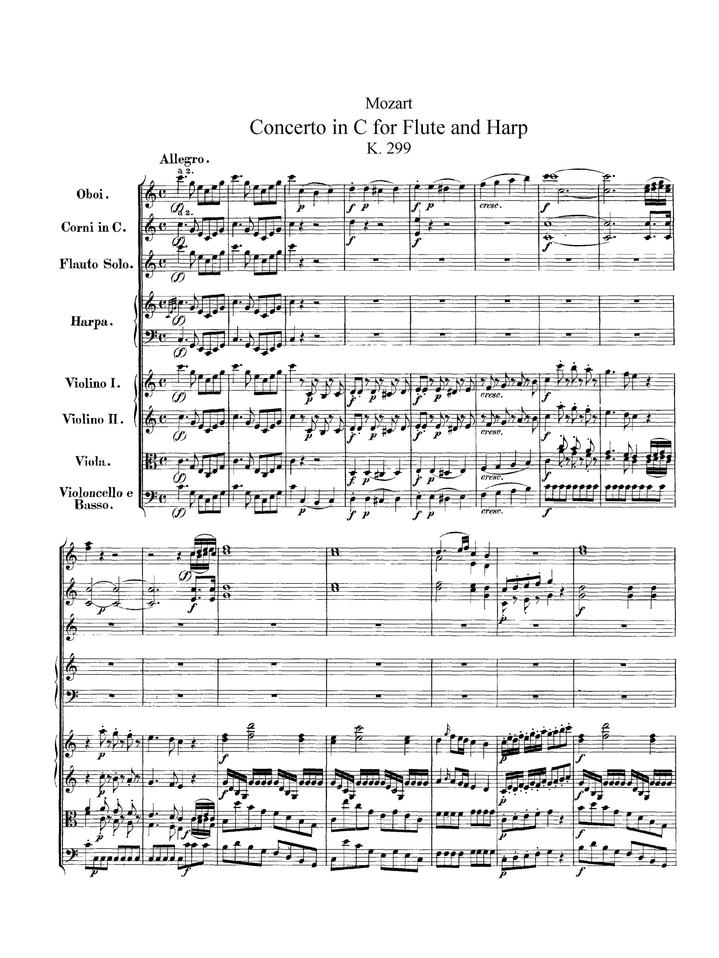 Wolfgang Amadeus Mozart: Concerto for Flute, Harp, and Orchestra, K. 299, 1st movement